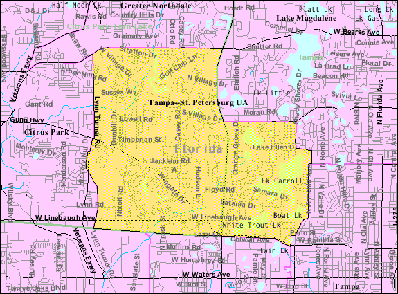 U.S. Census 2000 reference map for Greater Carrollwood Category:Census Bureau images Category:Florida maps Commons:Category:PD US Census Commons:Category:Maps of Florida